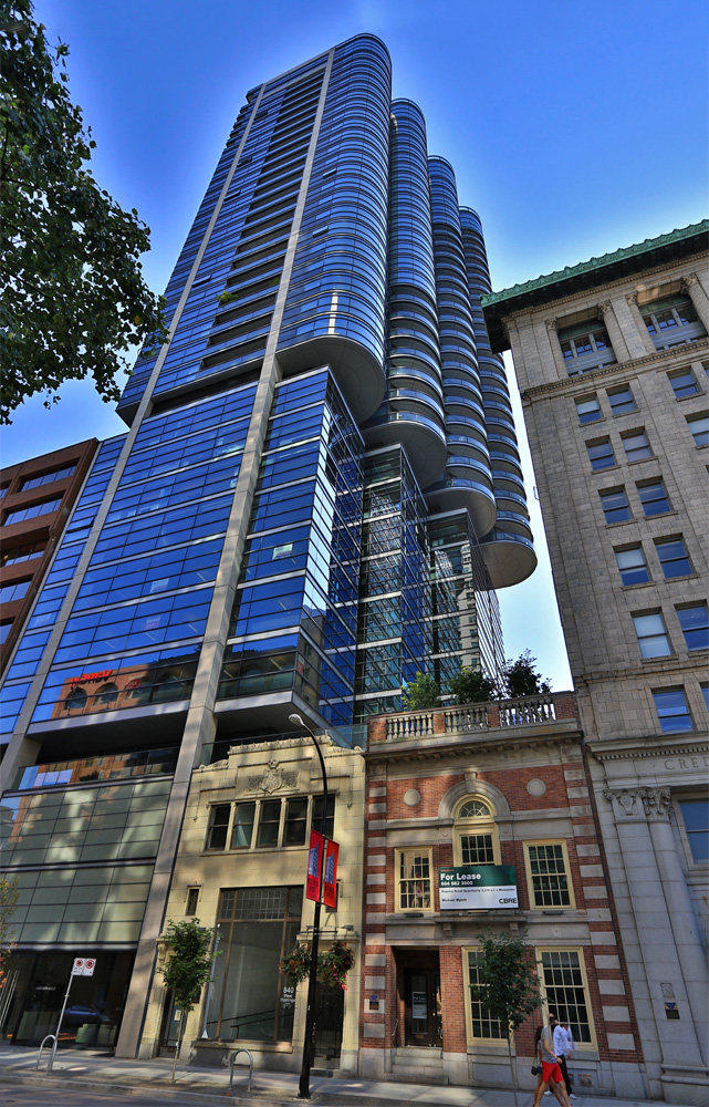 Jameson House residential tower in Vancouver.